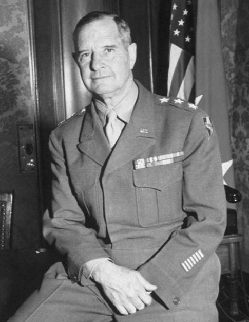 Geoffrey Keyes (October 30, 1888 – September 17, 1967) was a highly decorated U.S. Army Lieutenant General who commanded the II Corps during World War II.